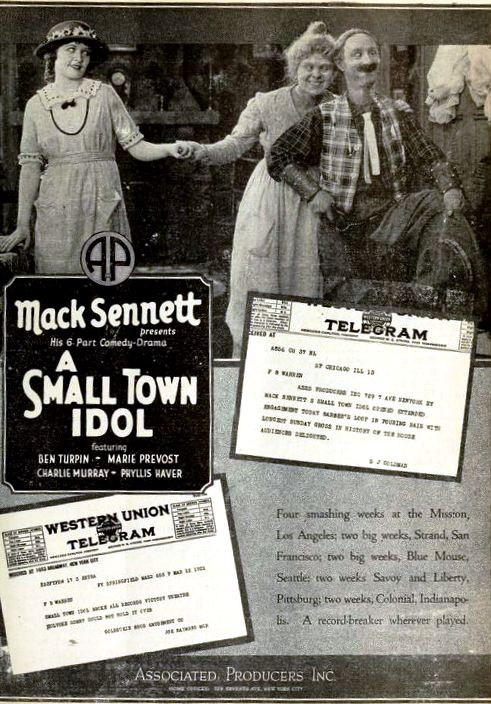 Ad for the American comedy film A Small Town Idol starring Phyllis Haver, Dot Farley, and Ben Turpin, on page 11 of the March 20, 1921 Film Daily.